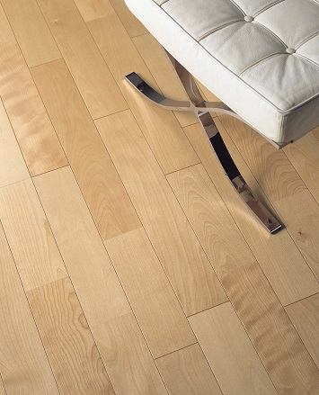 ƒo[ƒ`ƒAƒbƒv